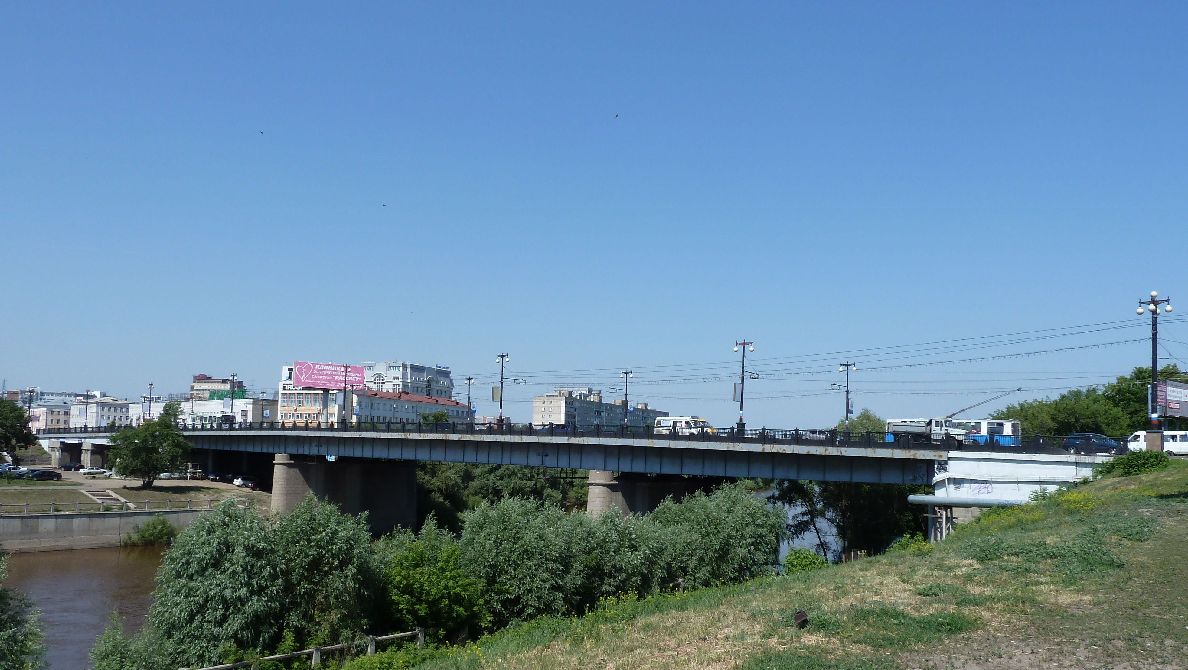 Komsomolsky bridge over the Om River in Omsk, Russia.